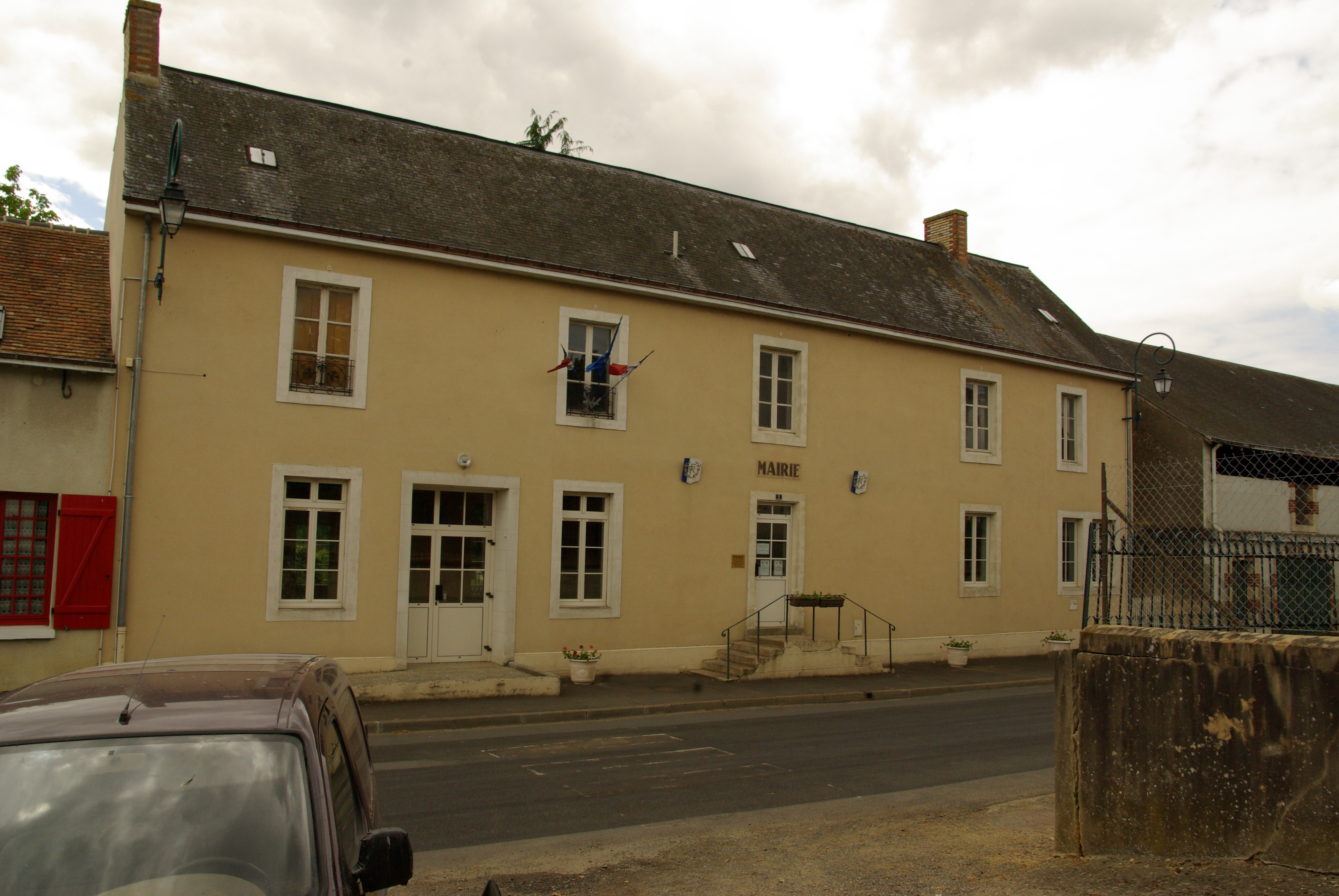 City Hall of Chemire-le-Gaudin (France)